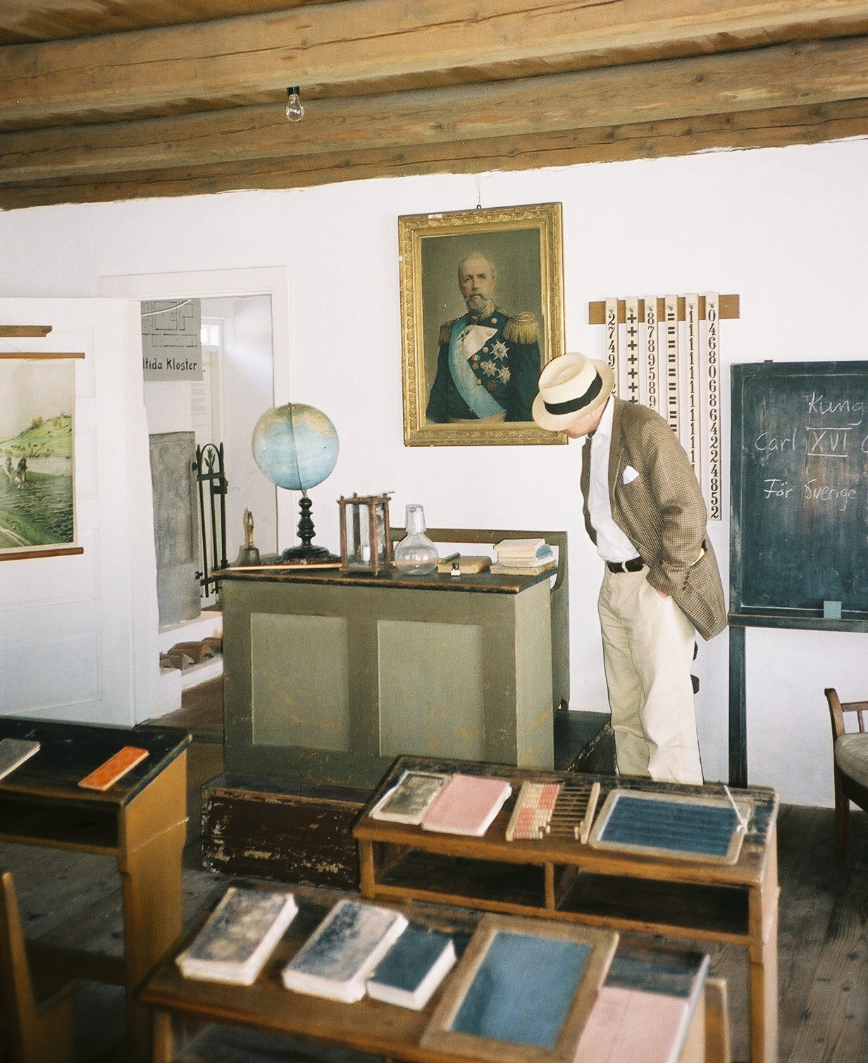 The school museum of Östra Tommarp, Sweden